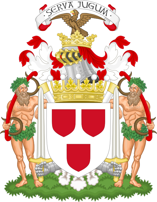 coat of arms of the earl of Erroll, high constable of Scotland Arms. Argent three Inescutcheons Gules; behind the shield in saltire two Batons Argent tipped Or (for Lord High Constable of Scotland). Crest. Issuing out of a Ducal Coronet a Falcon volant proper armed jessed and belled Or. Supporters. On either side a Savage wreathed about the middle with Laurel, bearing on his exterior shoulder an Ox Yoke proper Bows gules. [with badge as Great Constable of Scotland, viz. two arms vambraced issuing out of clouds and gauntlets proper, each holding a sword erect in pale argent, hilted and pommelled or, at the side of the escutcheon] Motto. Serva Jugum (Maintain the yoke). Cracroft's Peerage